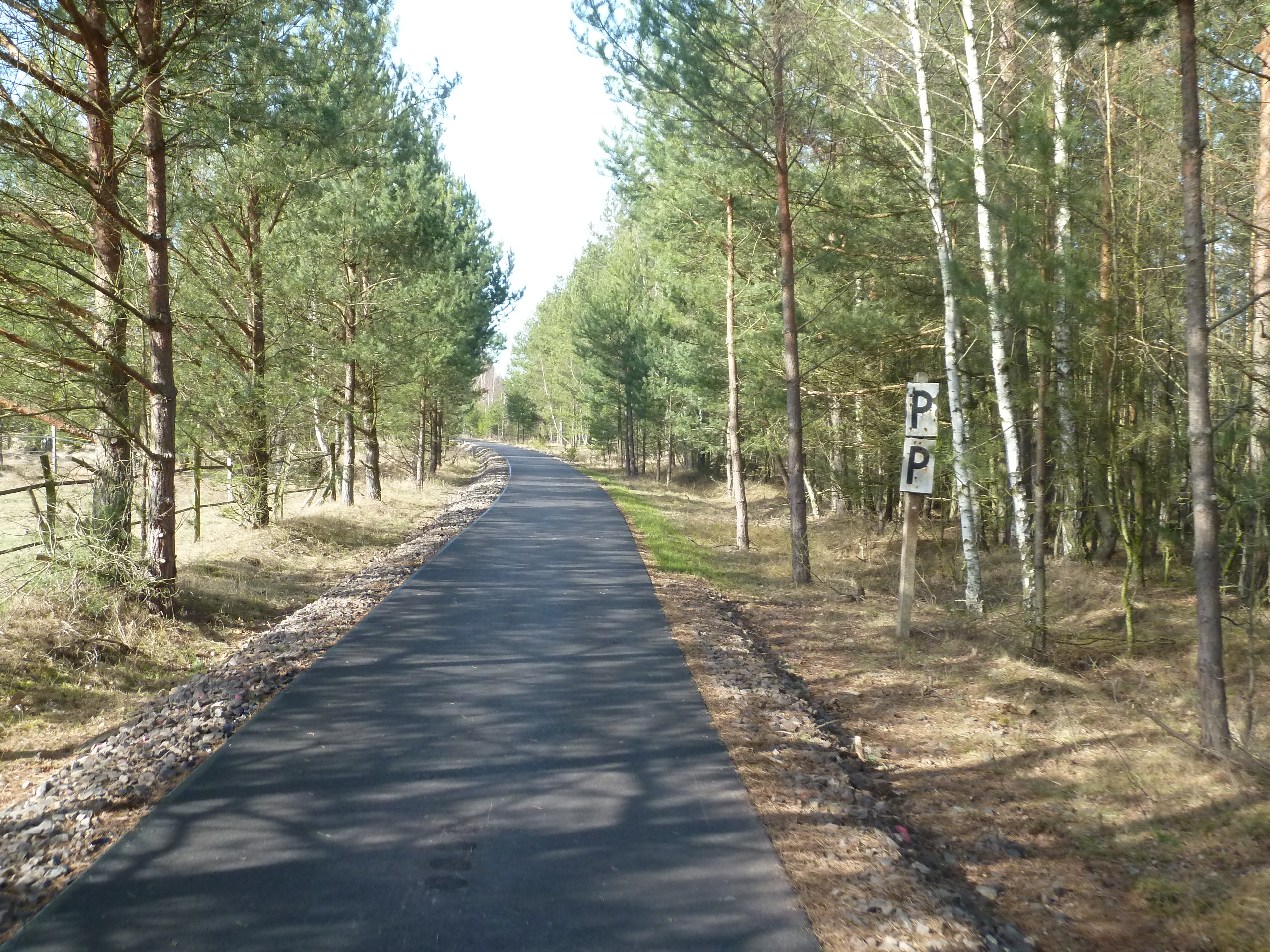 former railroad Ziesar-Görzke, bike path